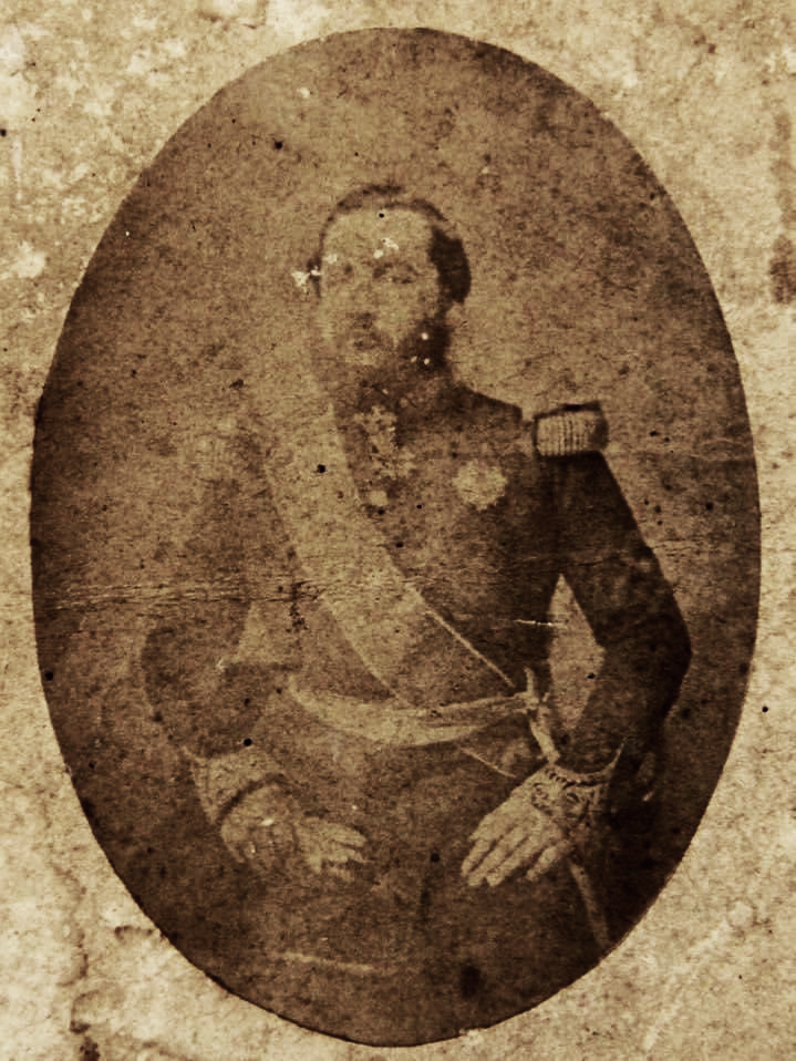 Francisco Solano López, Paraguayan dictator, 1867